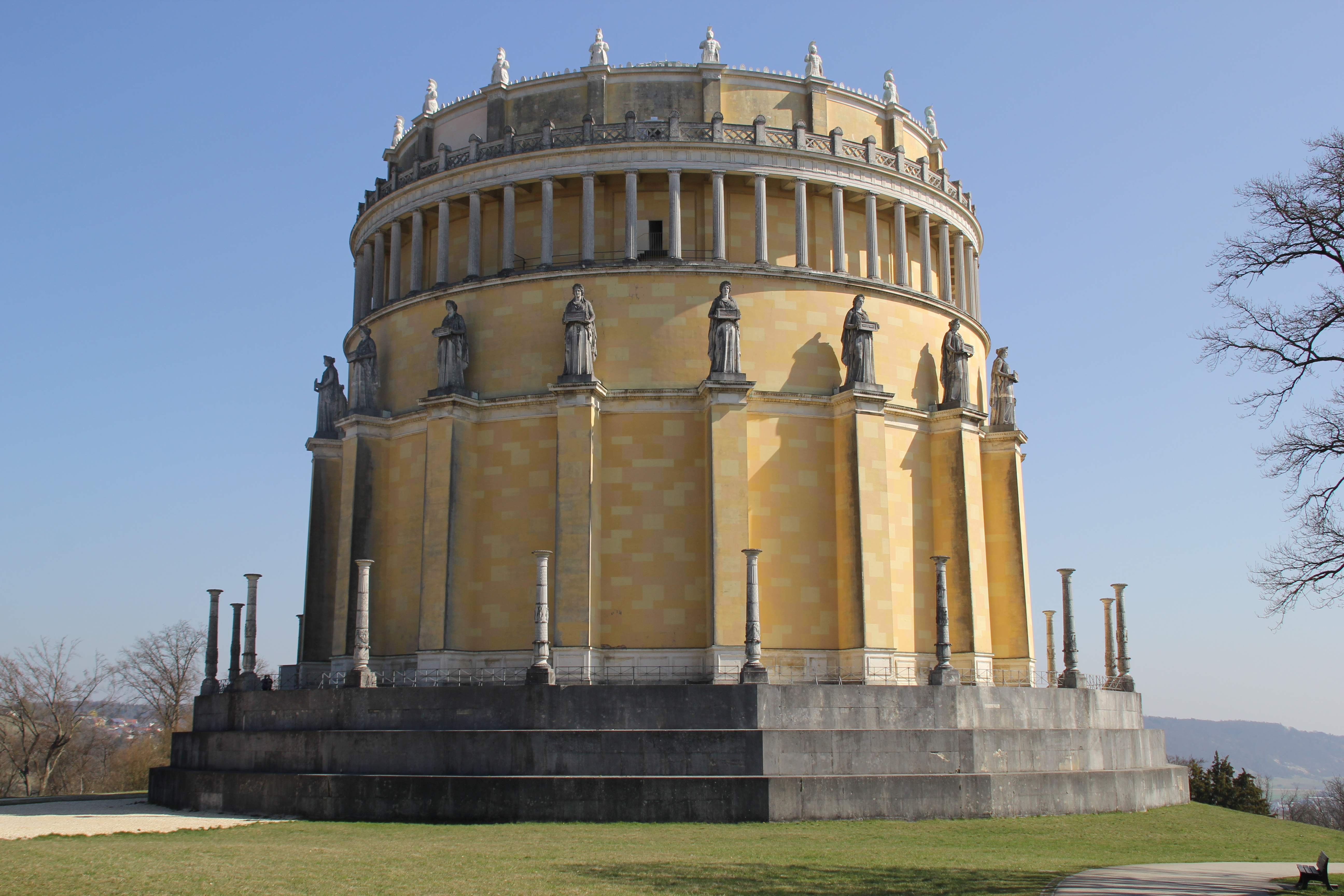 The Befreiungshalle ("Hall of Liberation") near Kelheim, Bavaria, Germany